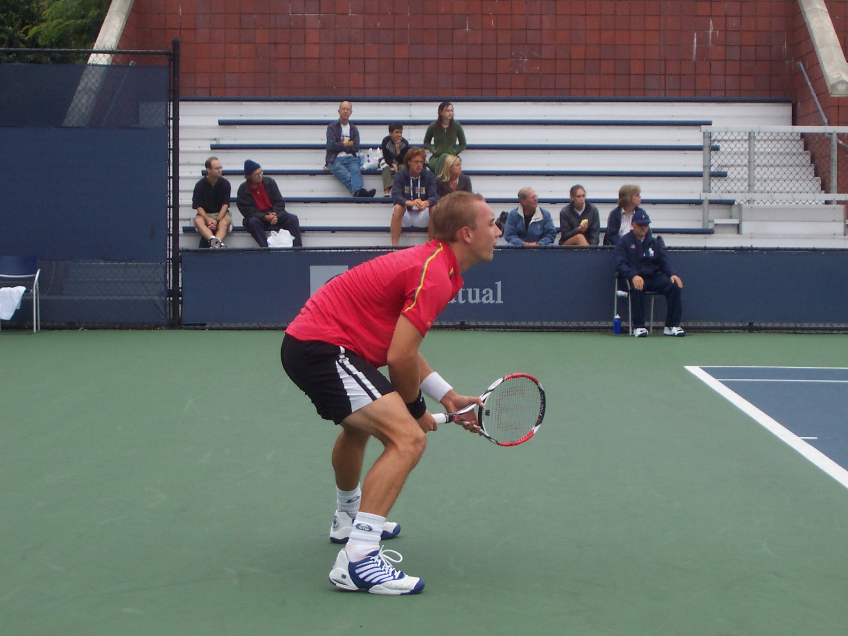 Steve Darcis At The 2007 US Open